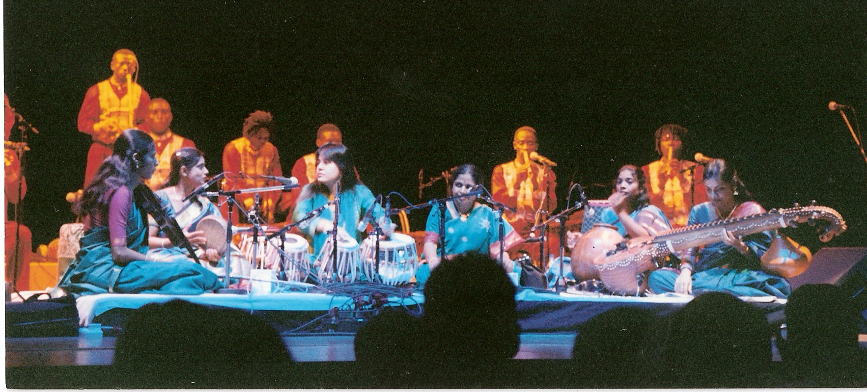 Anuradha Pal's Stree Shakti band with the Pan African Orchestra